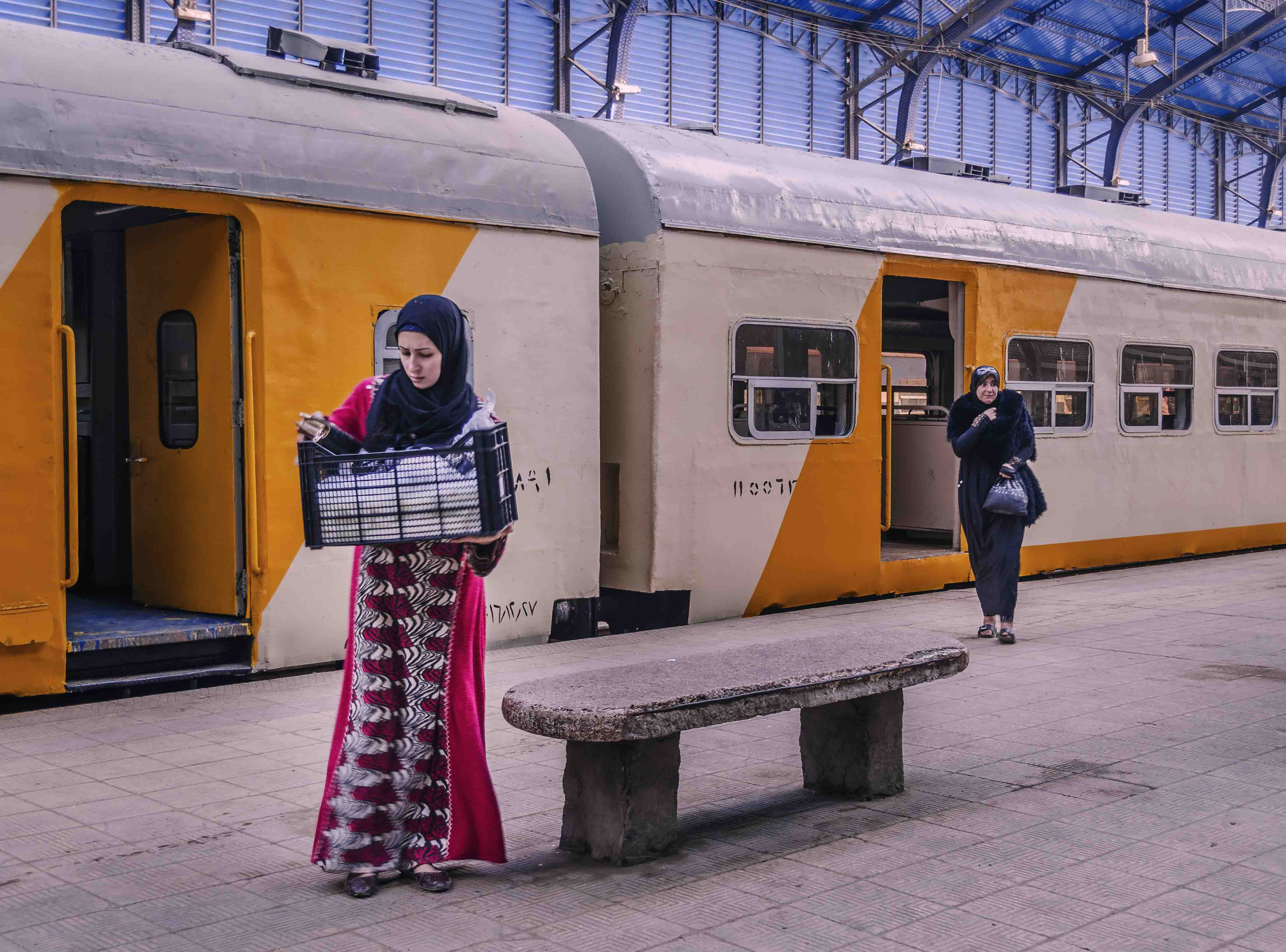 This is an image with the theme "Africa on the Move or Transport" from: Egypt